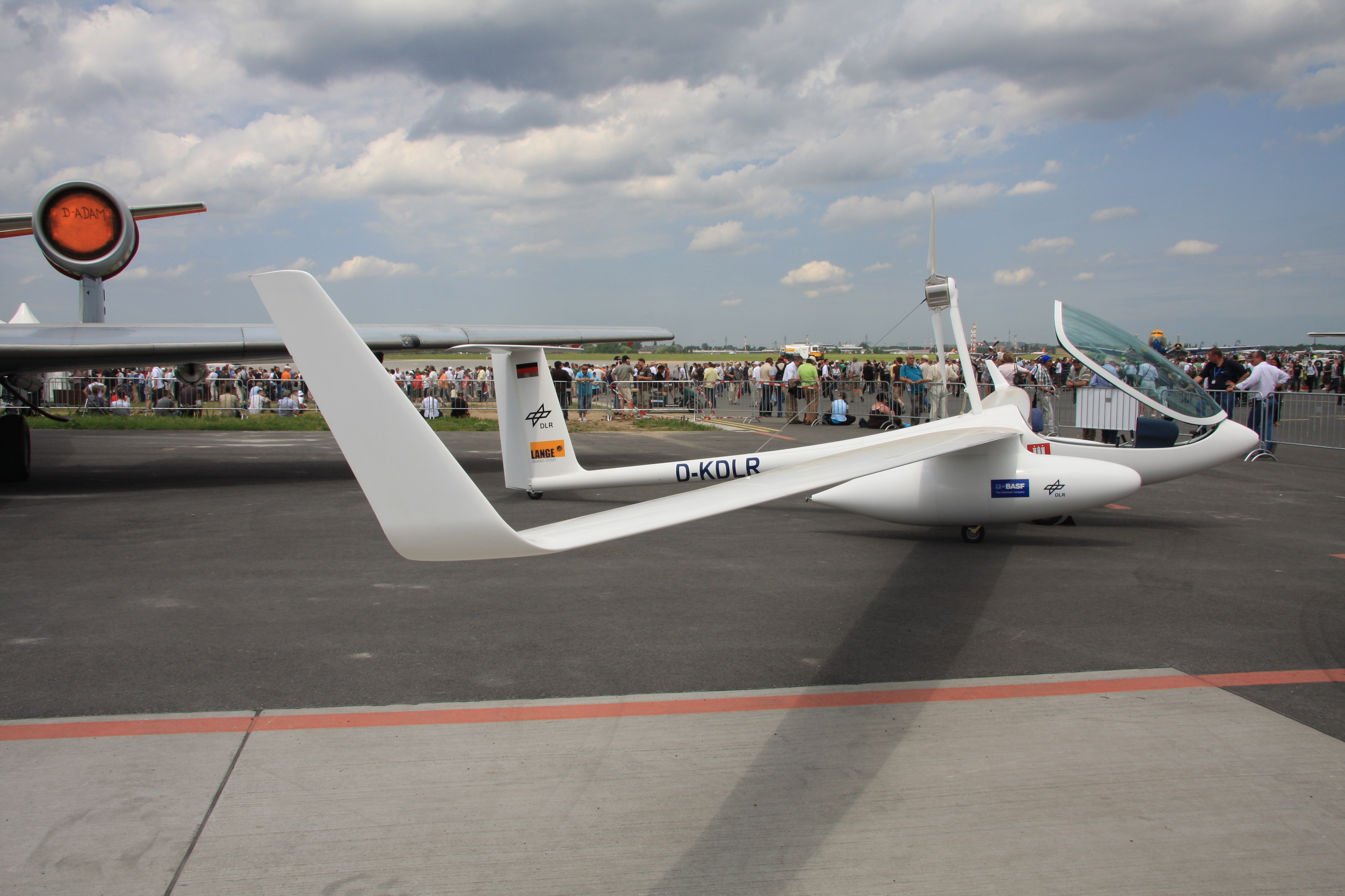 An Lange Antares 20E of the Deutsches Zentrum für Luft- und Raumfahrt powered with hydrogen (picture taken during the International Air and Space Exhbition)